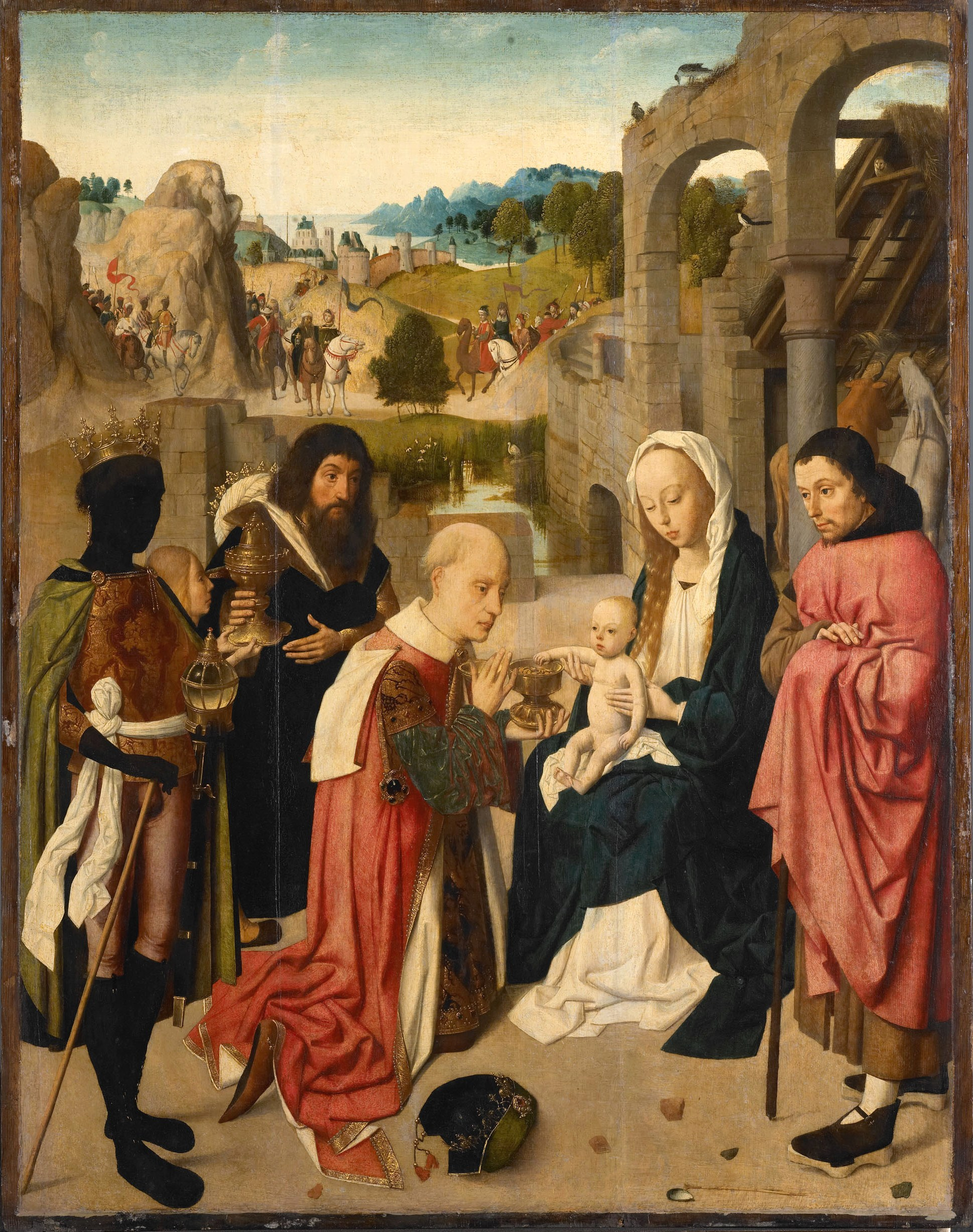 On the right the holy family in front of the stable in a ruin. On the left the three magi with their gifts. In the background the retinue of each of the three magi. The three magi represent three generations and the three continents known in the Middle Ages: Europe, Asia and Africa.